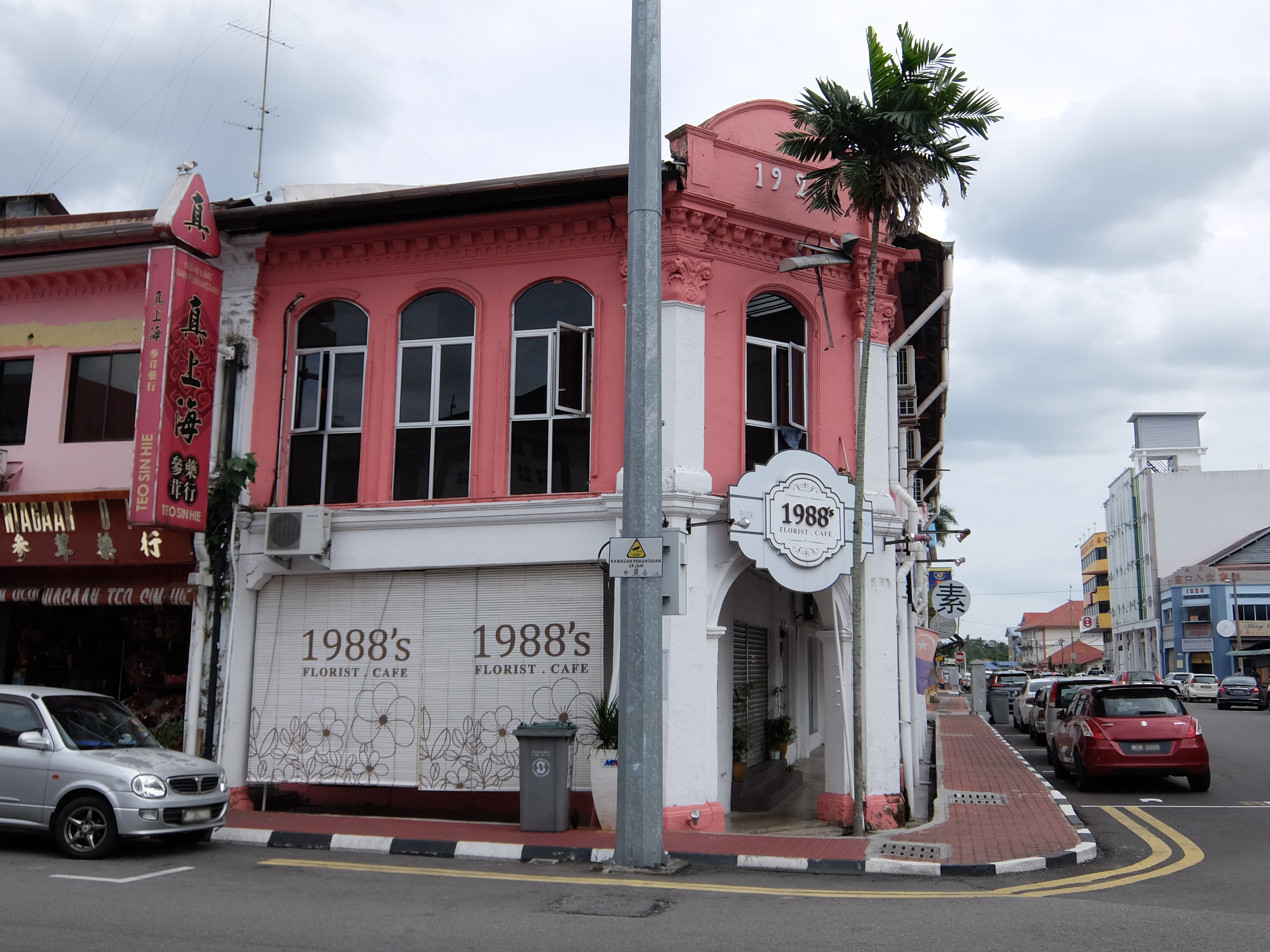 1988's Florist Cafe, Bandar Maharani, Muar, Johor, Malaysia